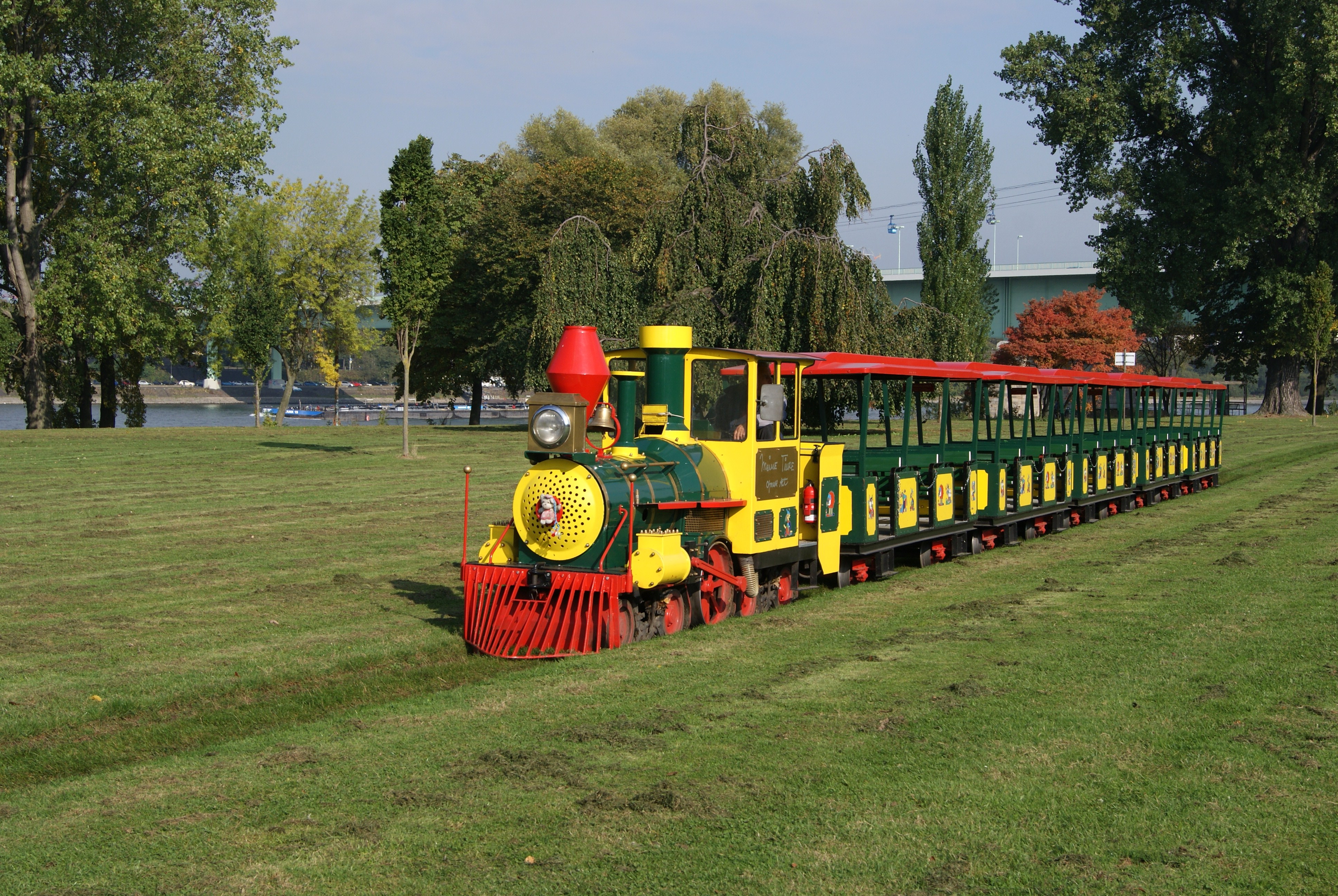 Kleinbahn im Rheinpark Cologne, train